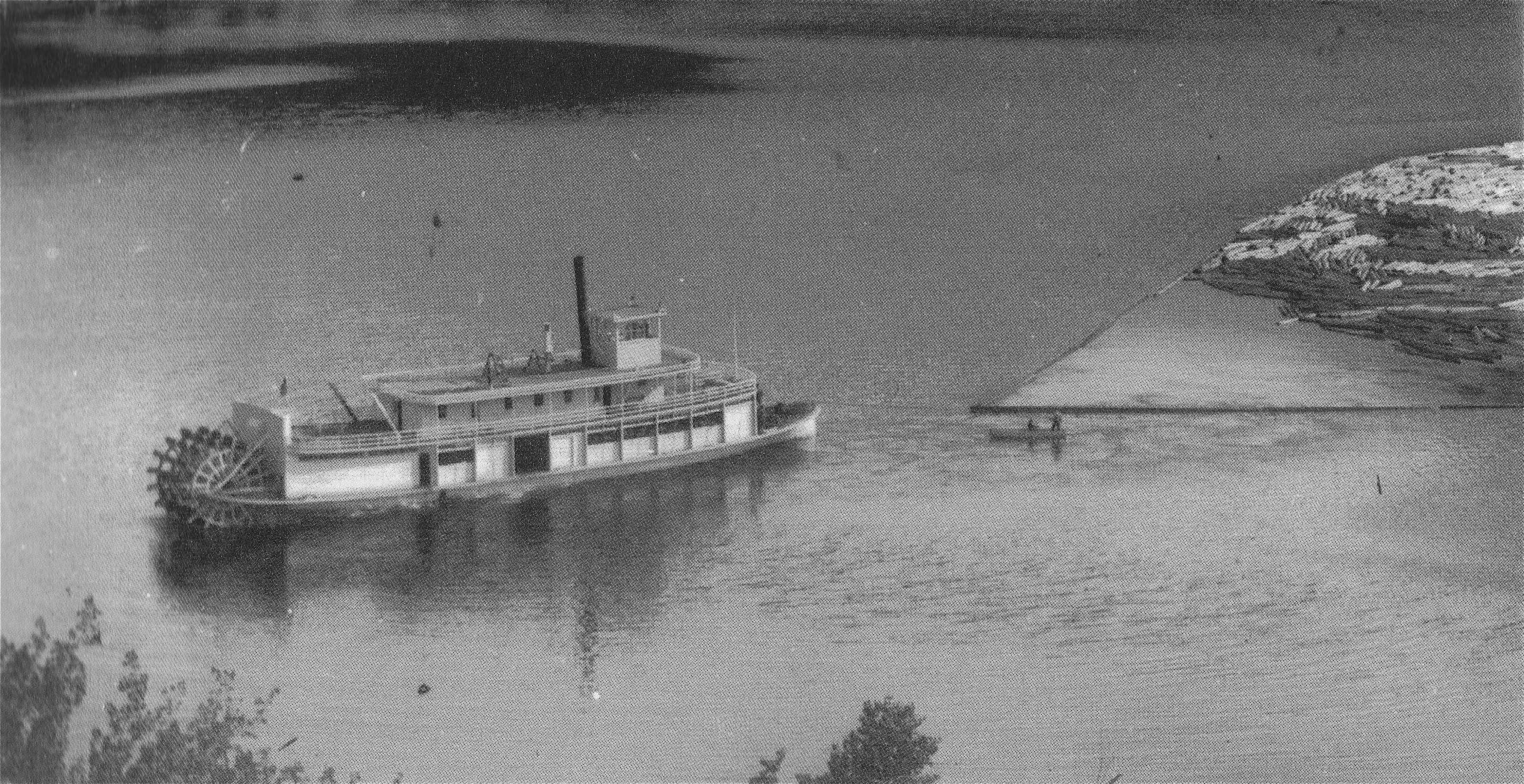 Sternwheeler Helen of the Adams Lake Lumber Company towing a log boom, Adams Lake, British Columbia